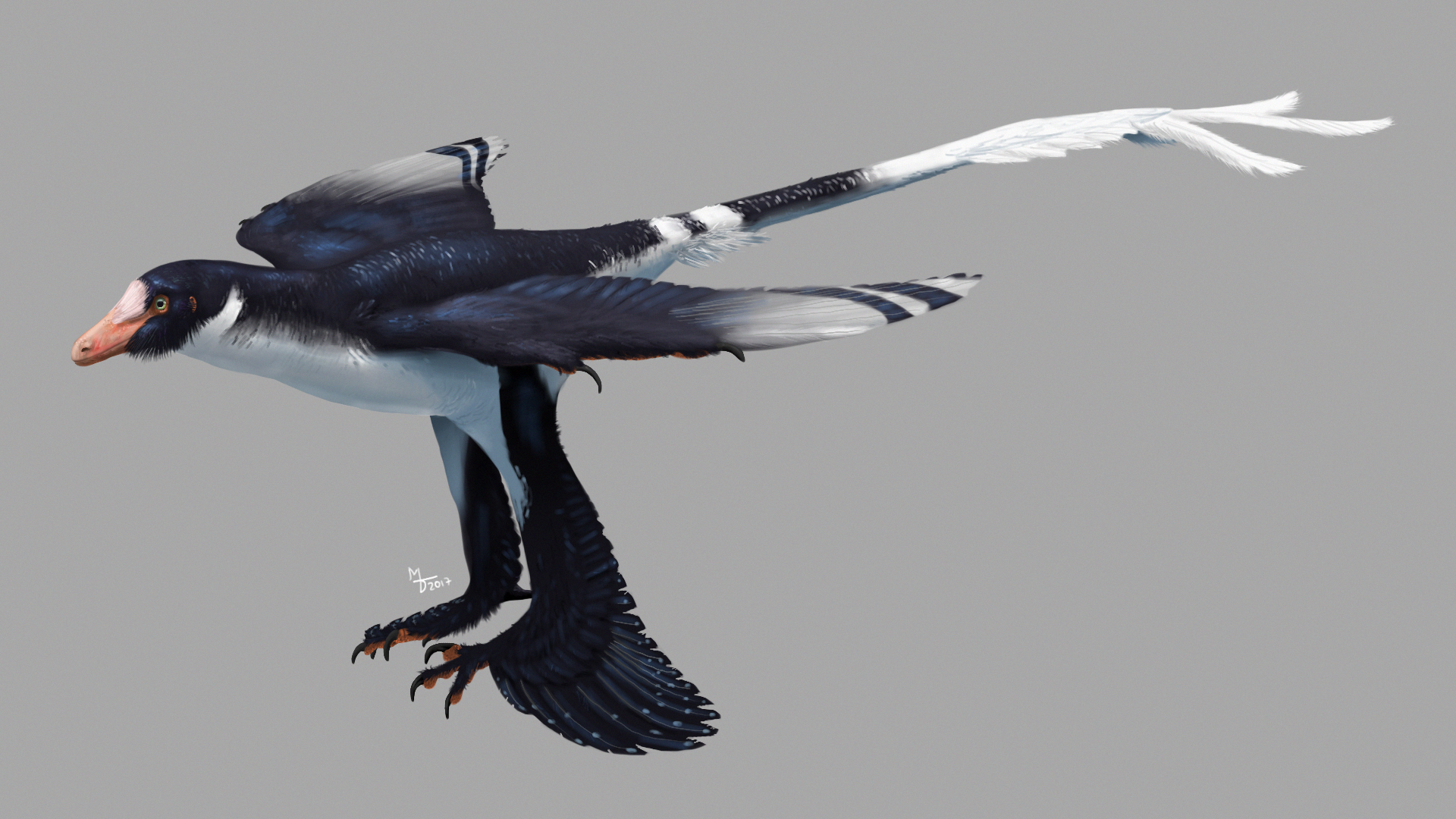 Artist reconstruction of Zhongjianosaurus yangi